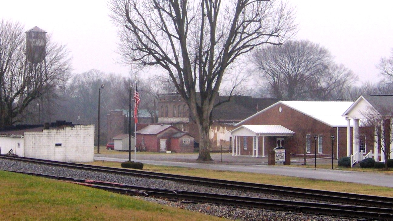 Philadelphia, Tennessee, located in the Southeastern United States.